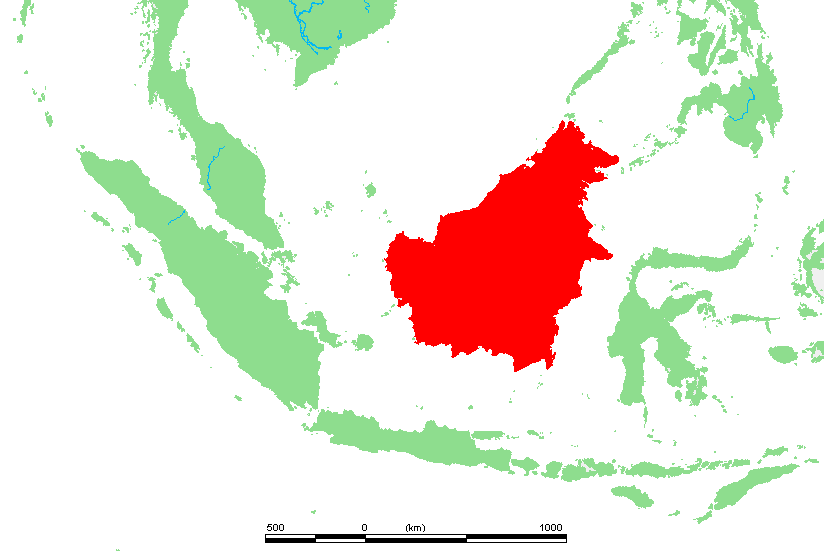 Location of Borneo (Indonesia,Malaysia,Brunei)